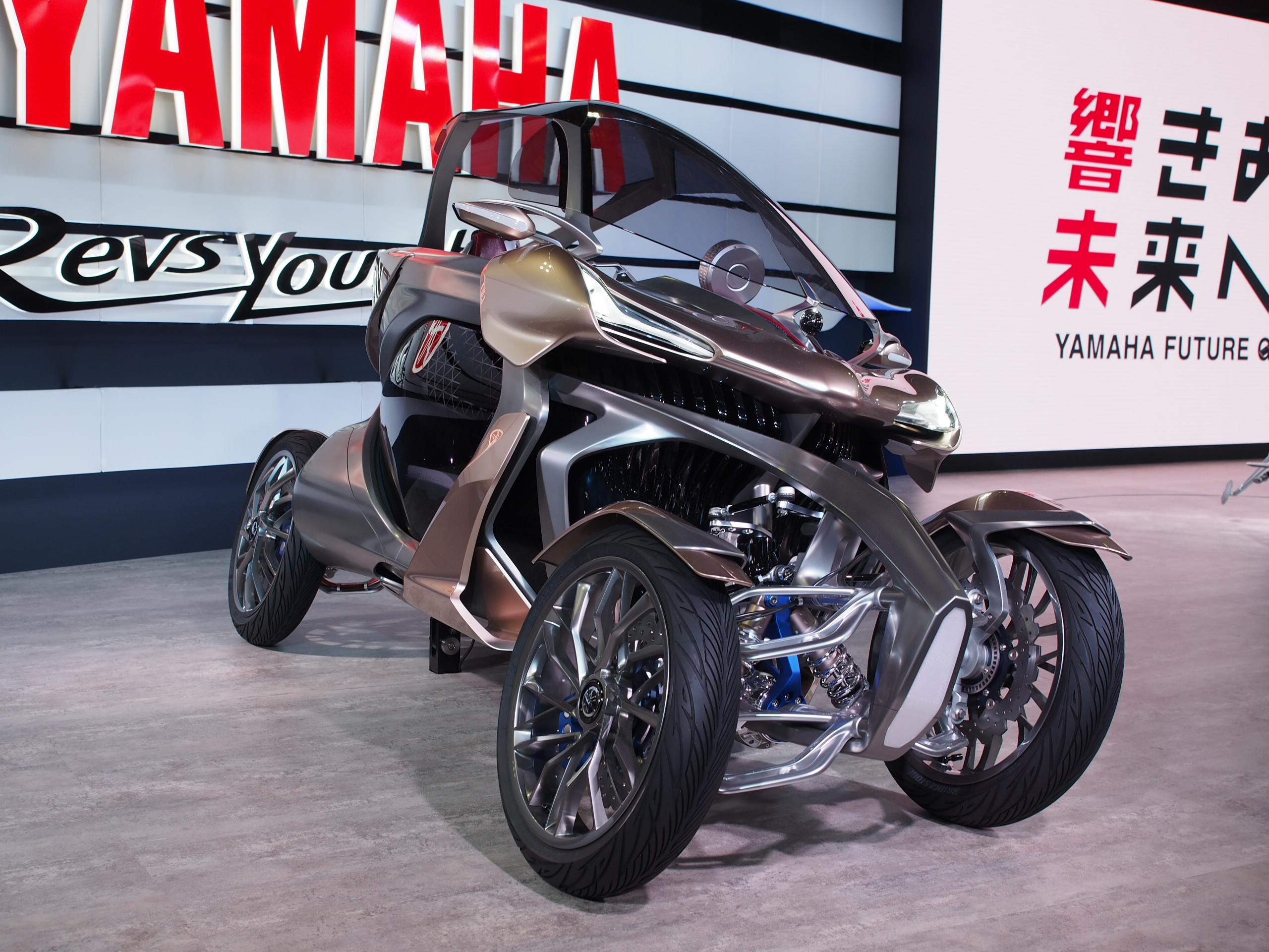 Yamaha MWC-4, exhibited at the Tokyo Motor Show 2017.